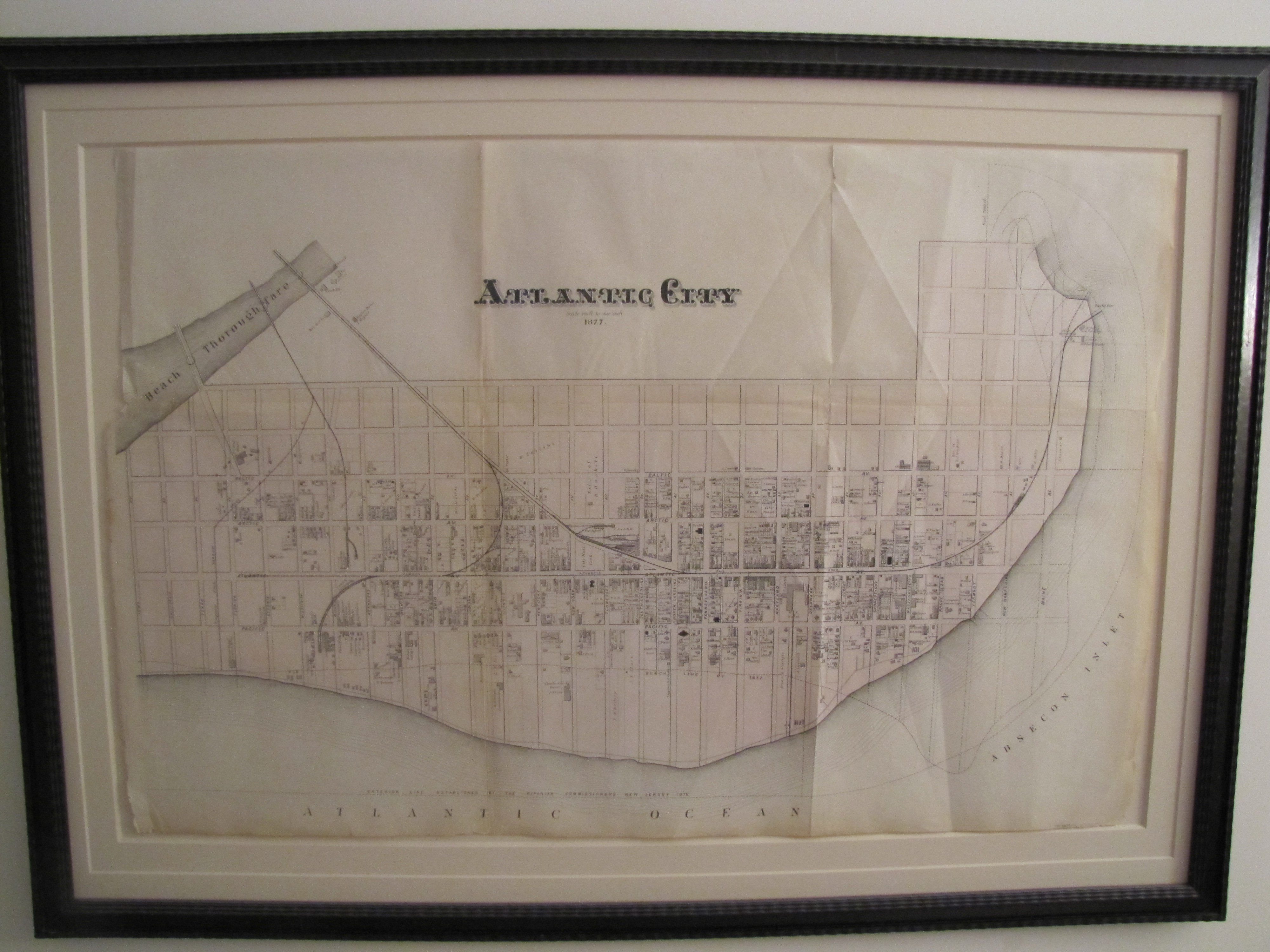 A map of Atlantic City from 1877 - picture of the framed original (which I own). Of special interest is a notation of the 1852 coastline, and the boardwalk to the U.S. Hotel.